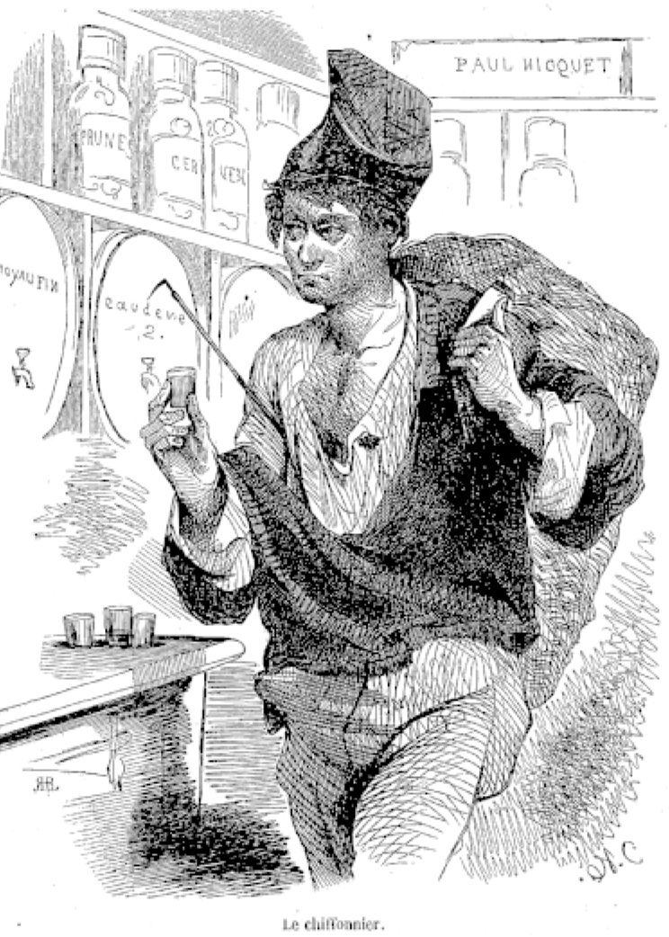 Un chiffonnier parisien